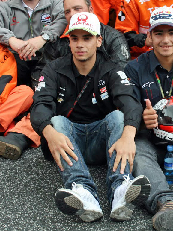 Miguel Oliveira 2011 Estoril